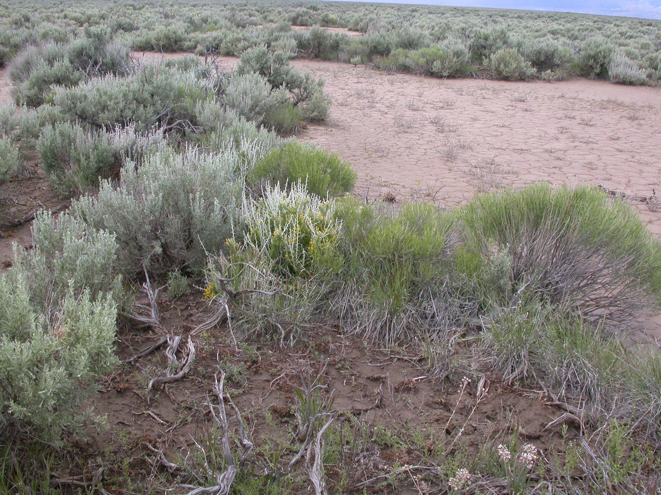 Tetradymia spinosa habitat in clayey flats, but occurs as well on higher more well drained rocky soils. In Idaho.